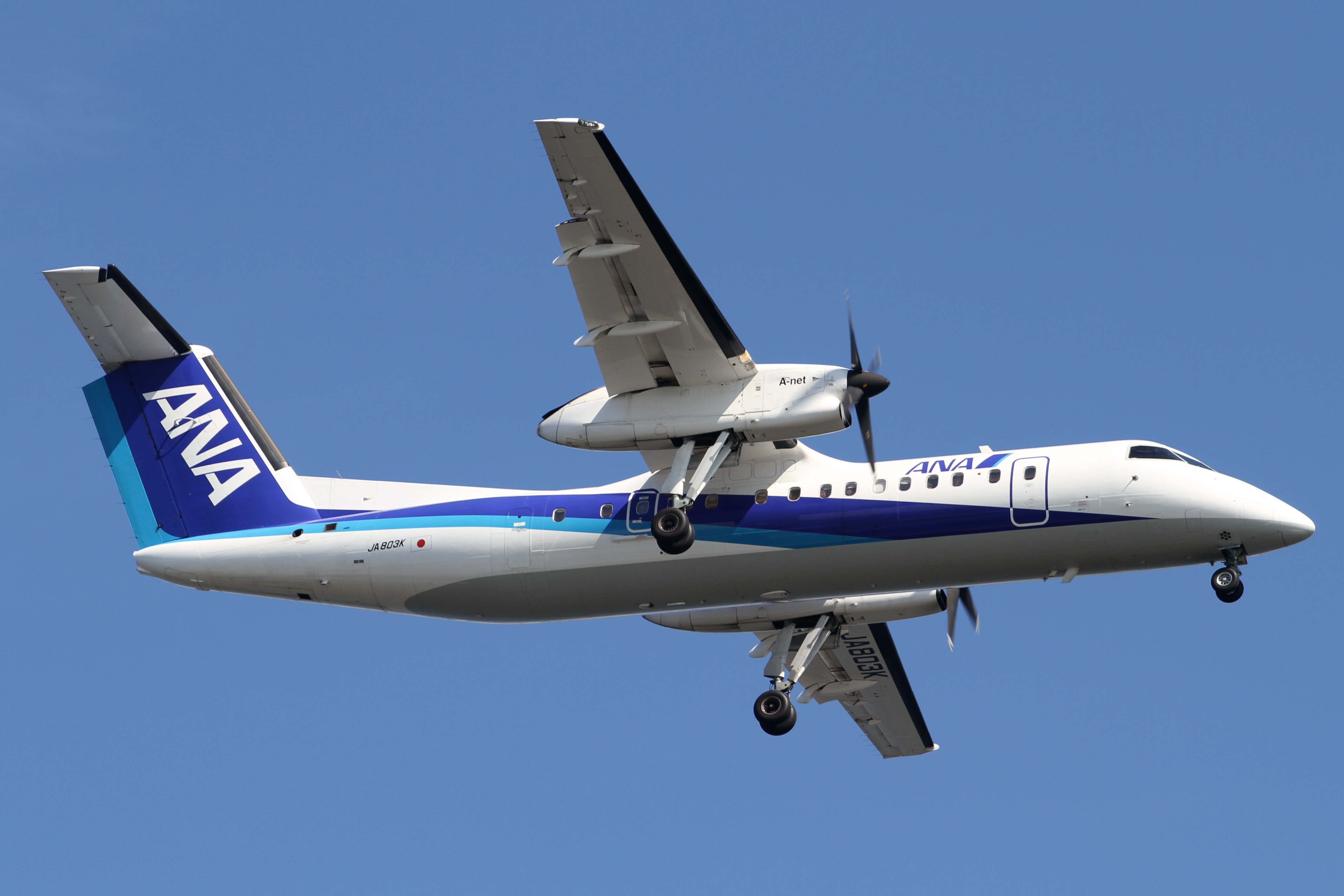 Tokyo International Airport, De Havilland Canada DHC-8-314Q Dash 8, c/n:583, Operated by ANA WINGS